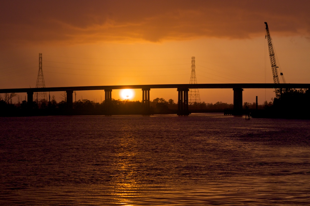 photograph of a sunset over the Cape Fear River and through the Isabel Holmes Bridge